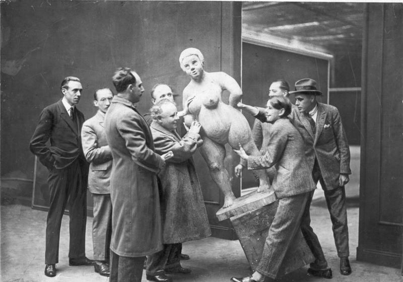 Berlin art exposition